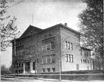 Welch Hall, Eastern Michigan University, c 1899